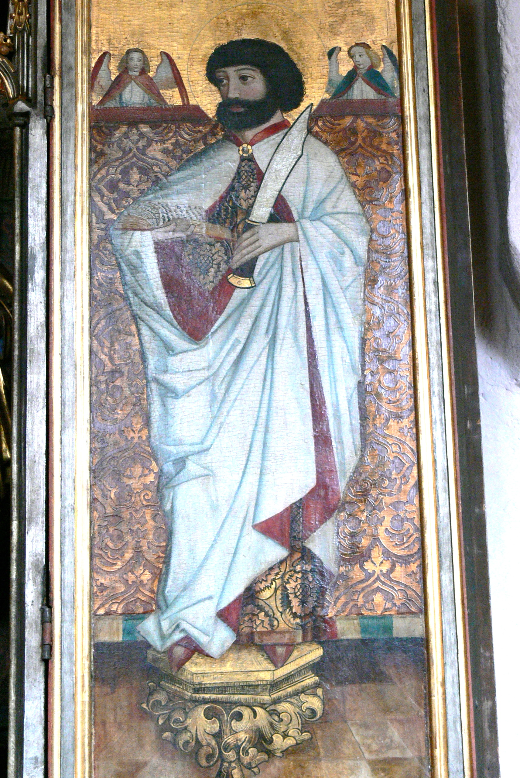 Langenzenn ( Bavaria ). City church - Altar of Mary: Saint Bartholomew ( 1470/80 ).